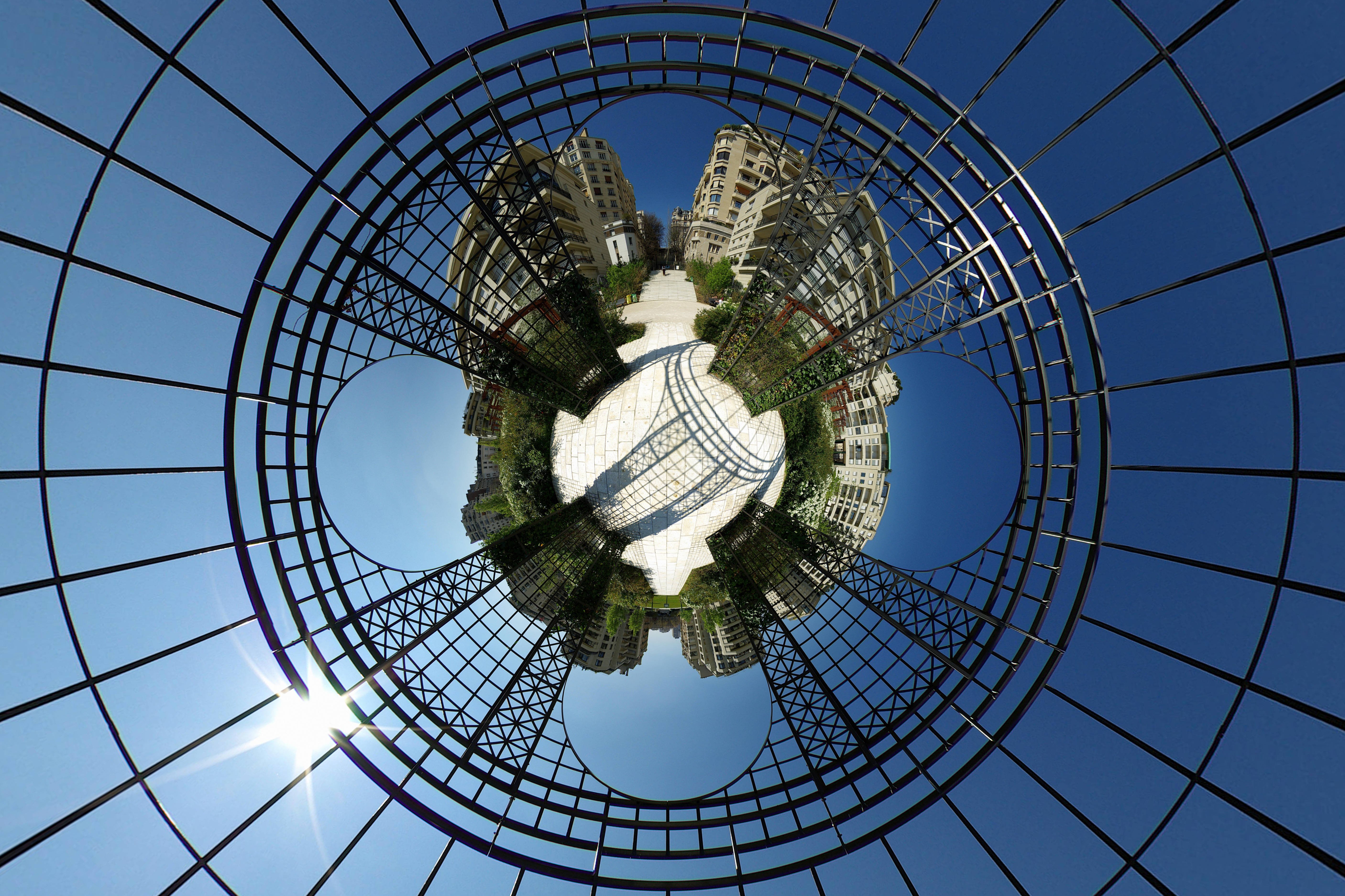 Stereographic projection of this equirectangular panorama.